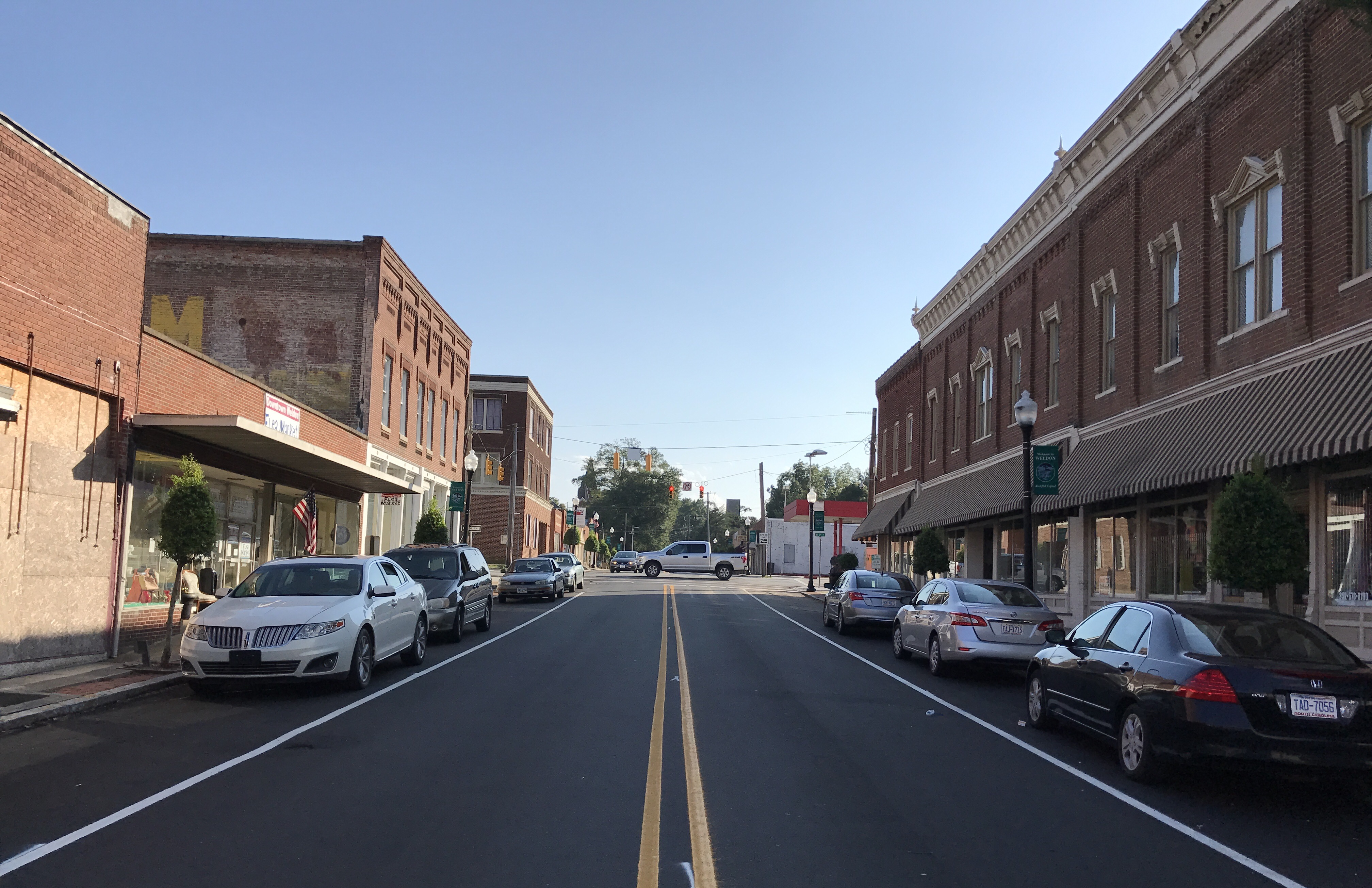 Weldon